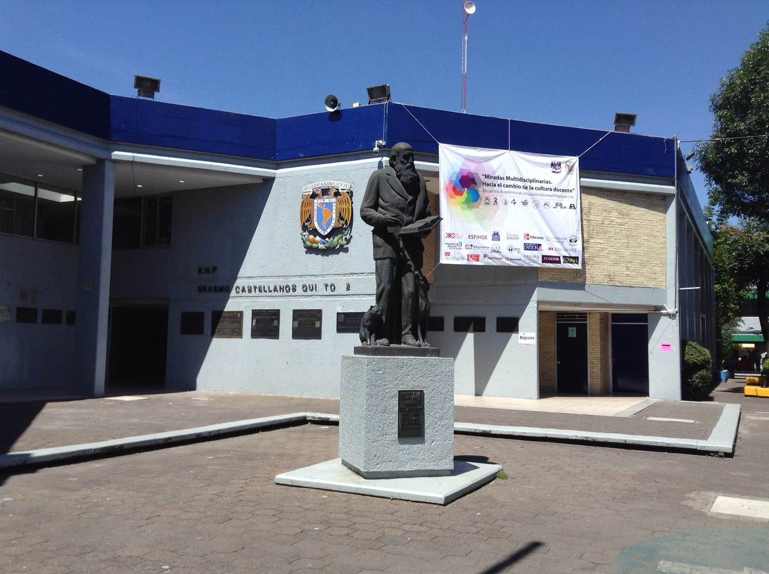 Main espanade of Plantel 2 (Campus 2) Erasmo Castellanos Quinto of the Escuela Nacional Preparatoria (UNAM) - Photo Huitzil010